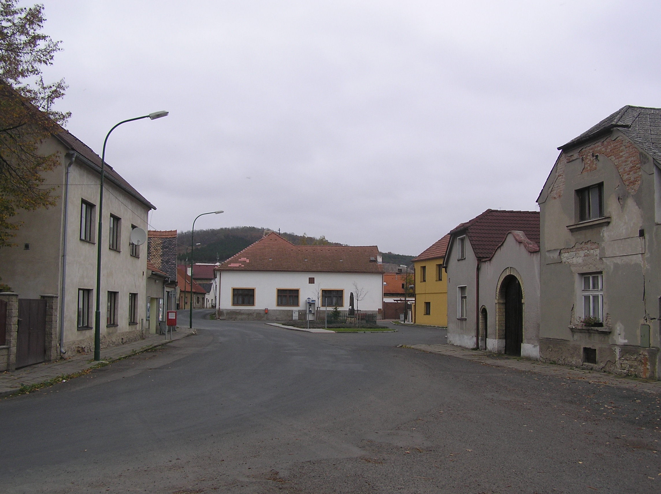 Village square in Vršovice